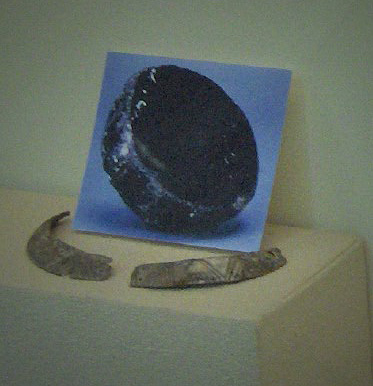 obsidian mirror; height : 4 cm; found at Çatalhöyük; first half of 6th millennium BC; Museum of Anatolian Civilizations, Ankara, Turkey